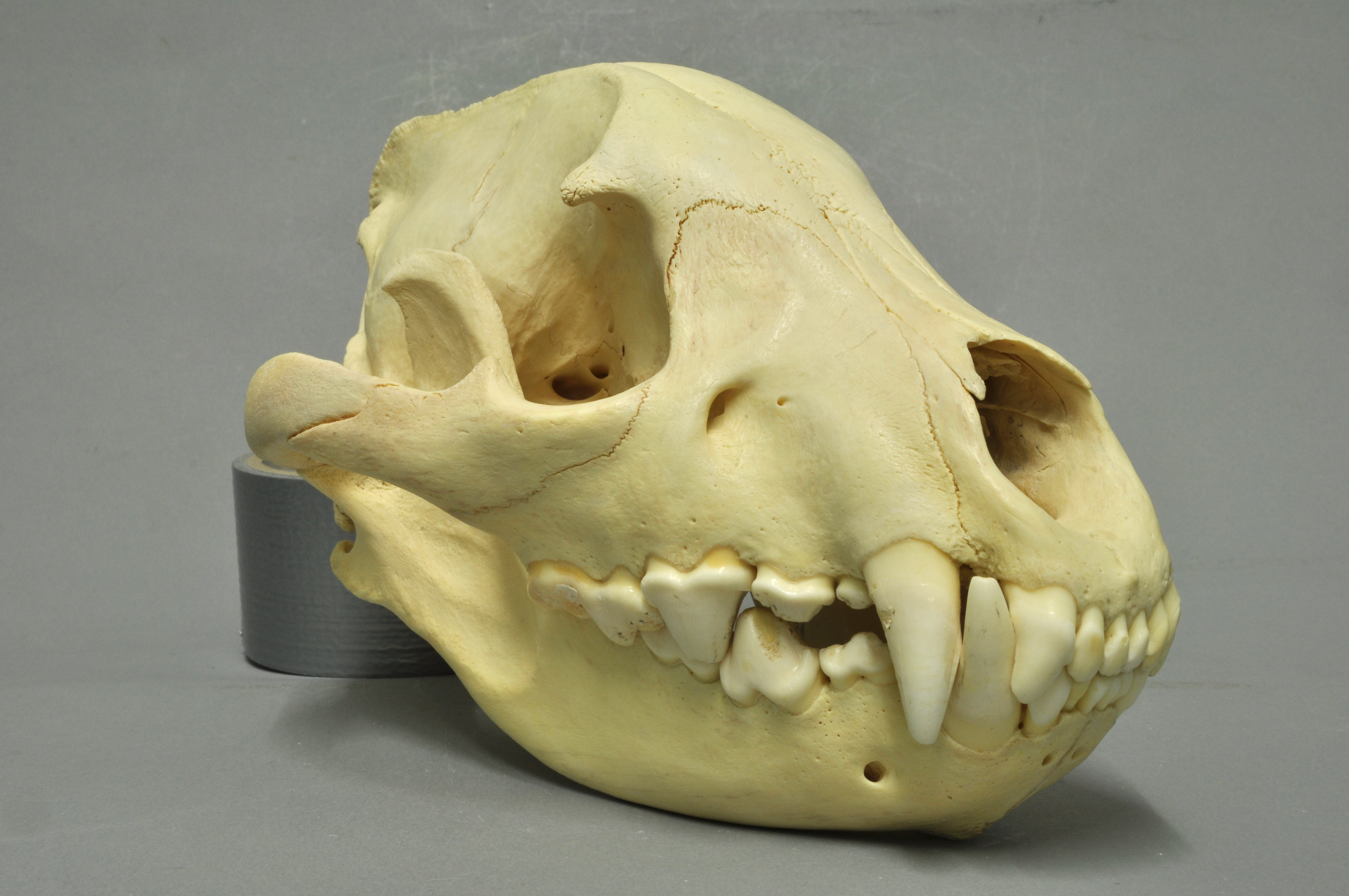 Spotted hyena Crocuta crocuta, skull, Coll. Museum Wiesbaden